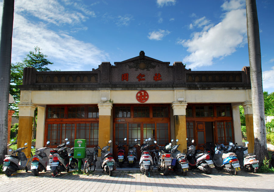 TongRenShe is a heritage building located in front of SheTou Train Station. This Japanese Occupation Era building was used as an office of railway transportation company, and has been appointed as a county heritage site by local authority.